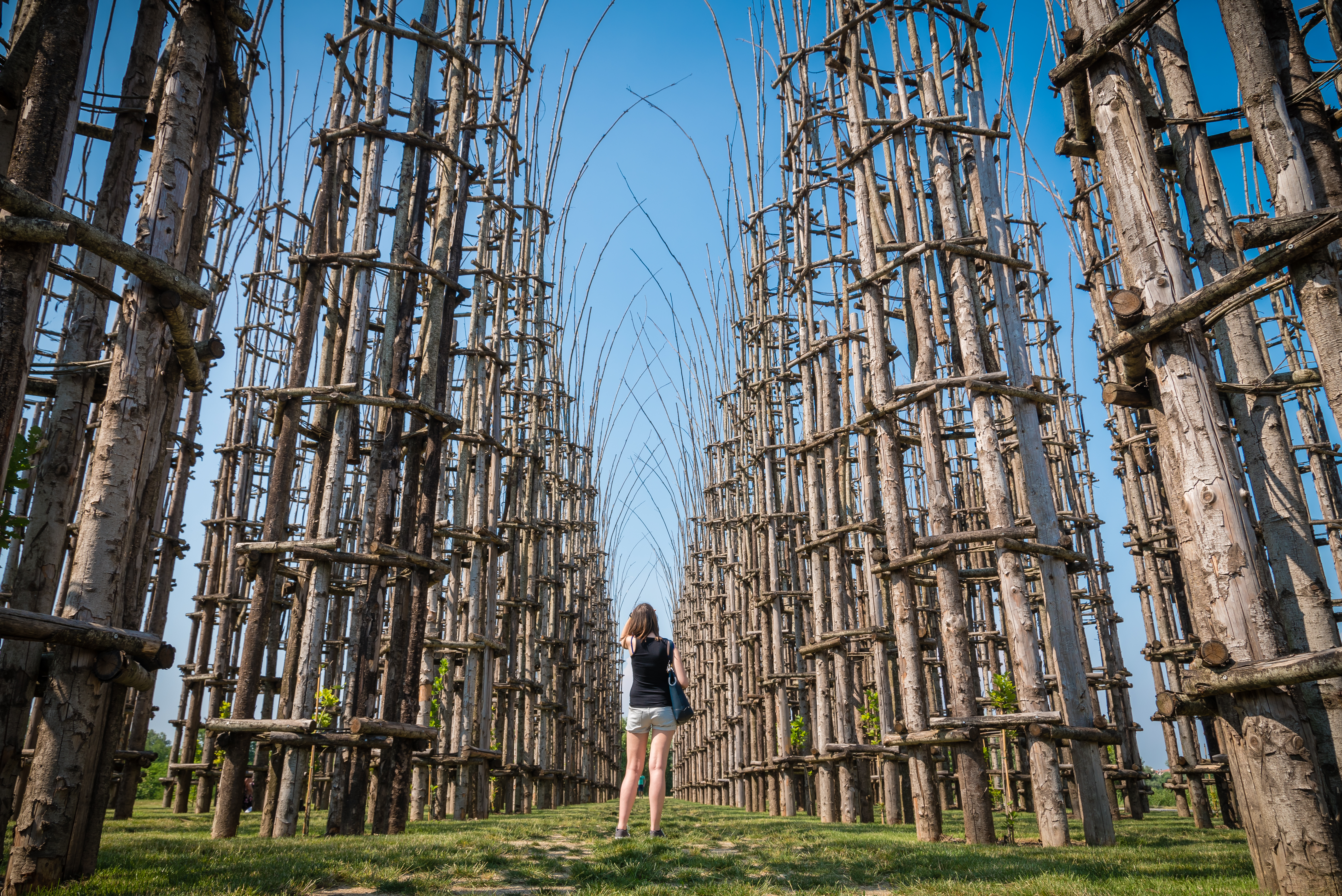 Cattedrale Vegetale (Tree Cathedral) by Giuliano Mauri in Lodi. If you use my image, please drop me a message to make me happy! :-) This work is licensed under a Creative Commons Attribution-ShareAlike 4.0 International License.